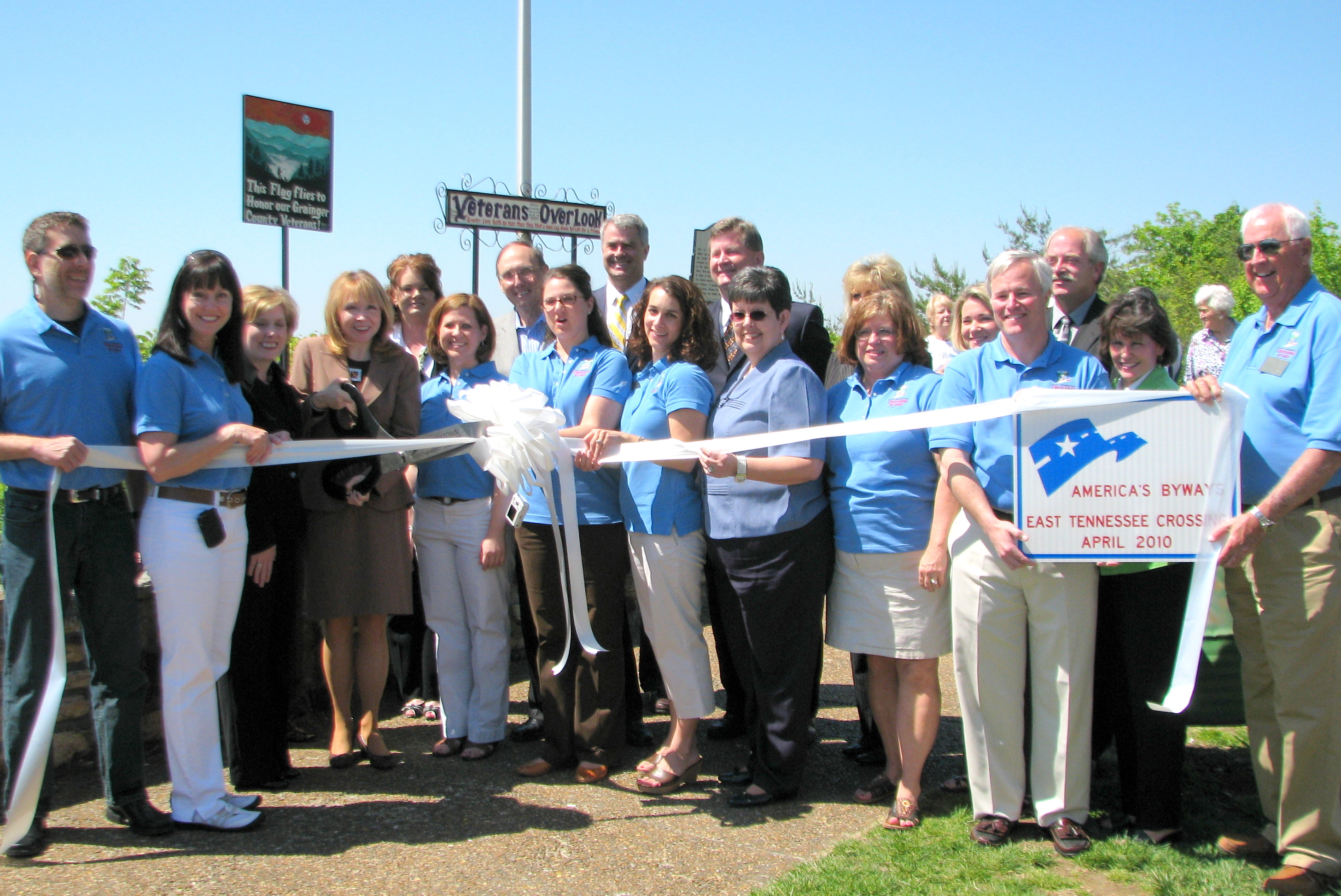 Scope and content: The original finding aid described this photograph as: Original Caption: Officials from the counties along the East Tennessee Crossing attend the official ribbon cutting ceremony on April 30, 2010. Location: Clinch Mountain, Tennessee (36.350° N 83.394° W) Status: Public domain. Public Domain